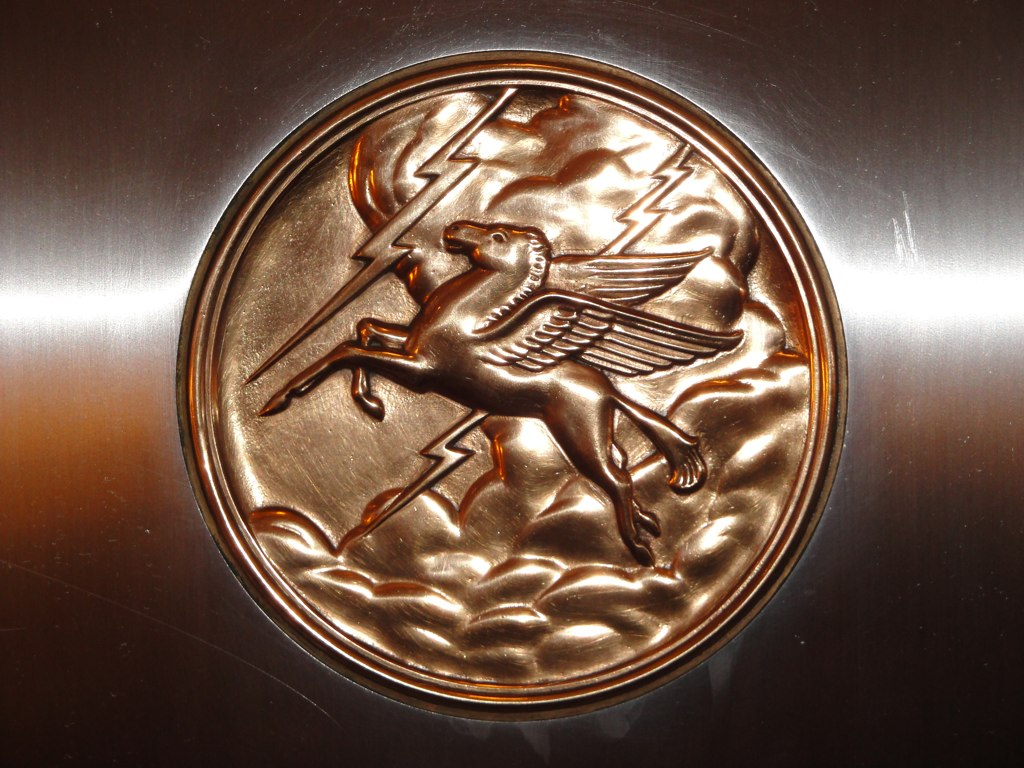 Pegasus elevator medallion in the historic Magnolia Building in downtown Dallas, Texas